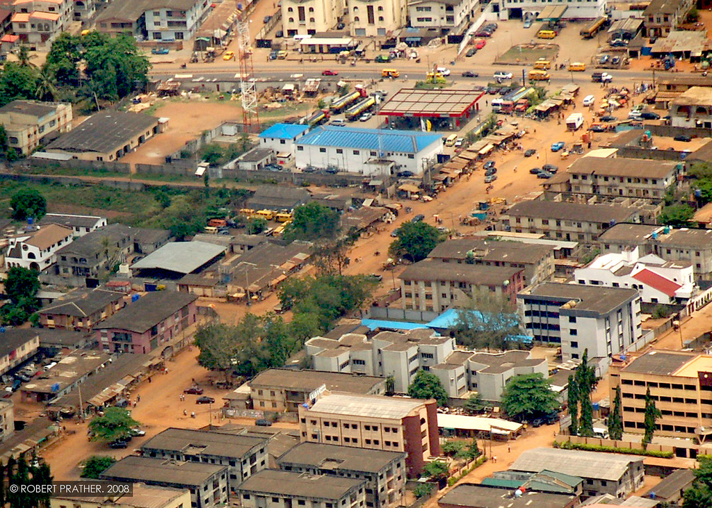 An aerial view of the City of Lagos, Nigeria.